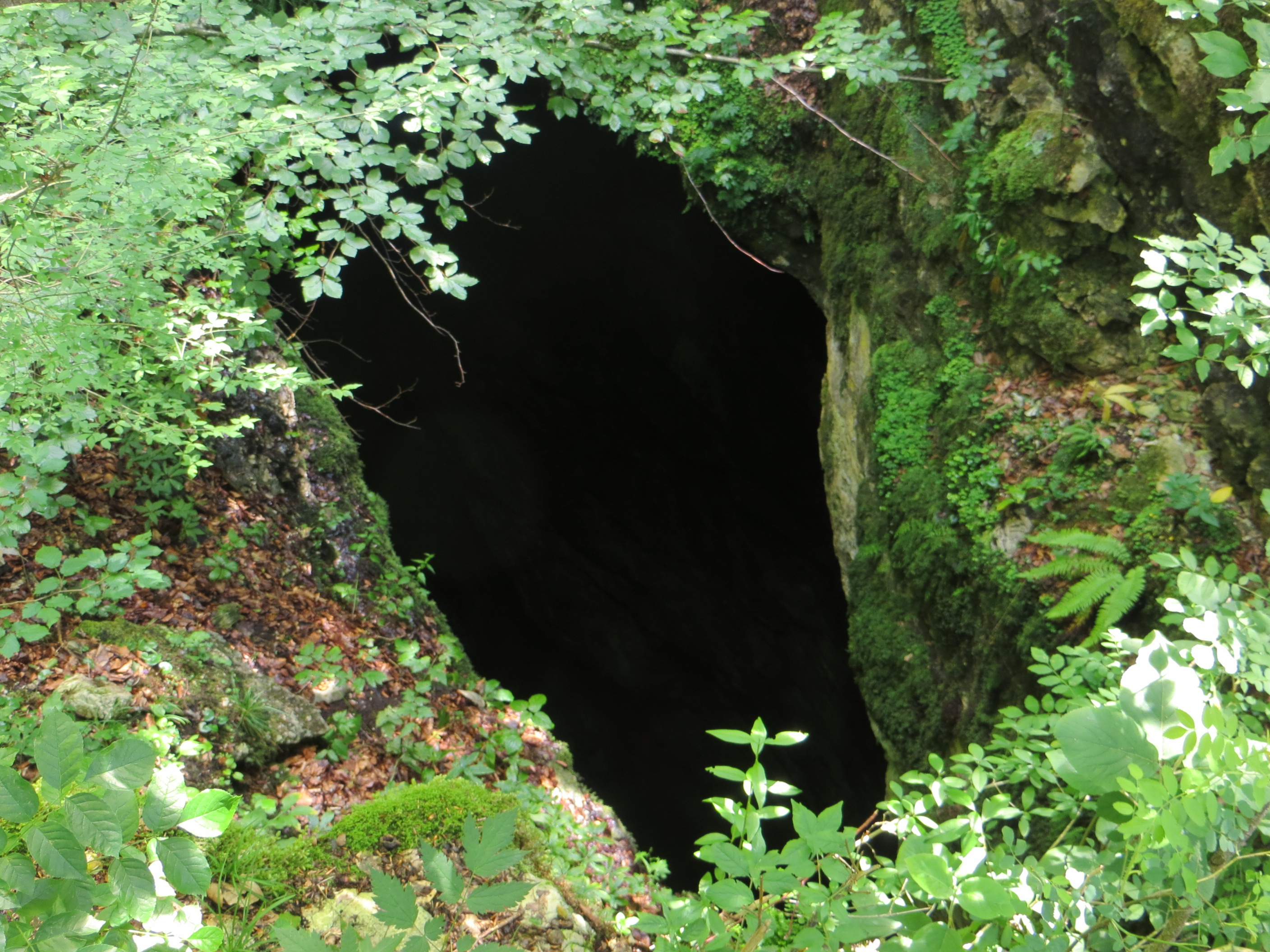 Žiglovica Cave, Ribnica, Municipality of Ribnica, Slovenia